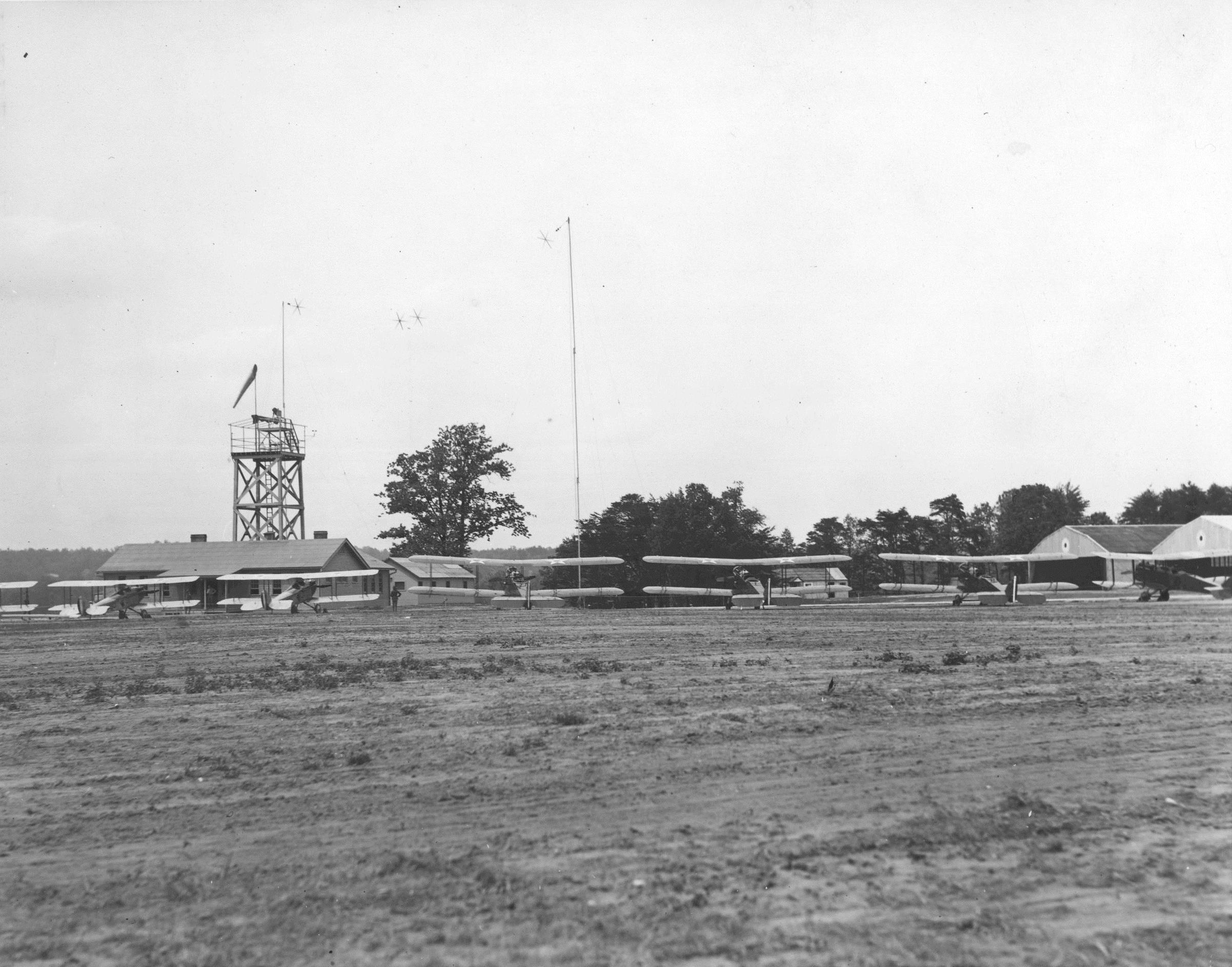 From the Walter V. Brown Collection (COLL/4326), Marine Corps Archives & Special Collections OFFICIAL USMC PHOTOGRAPH